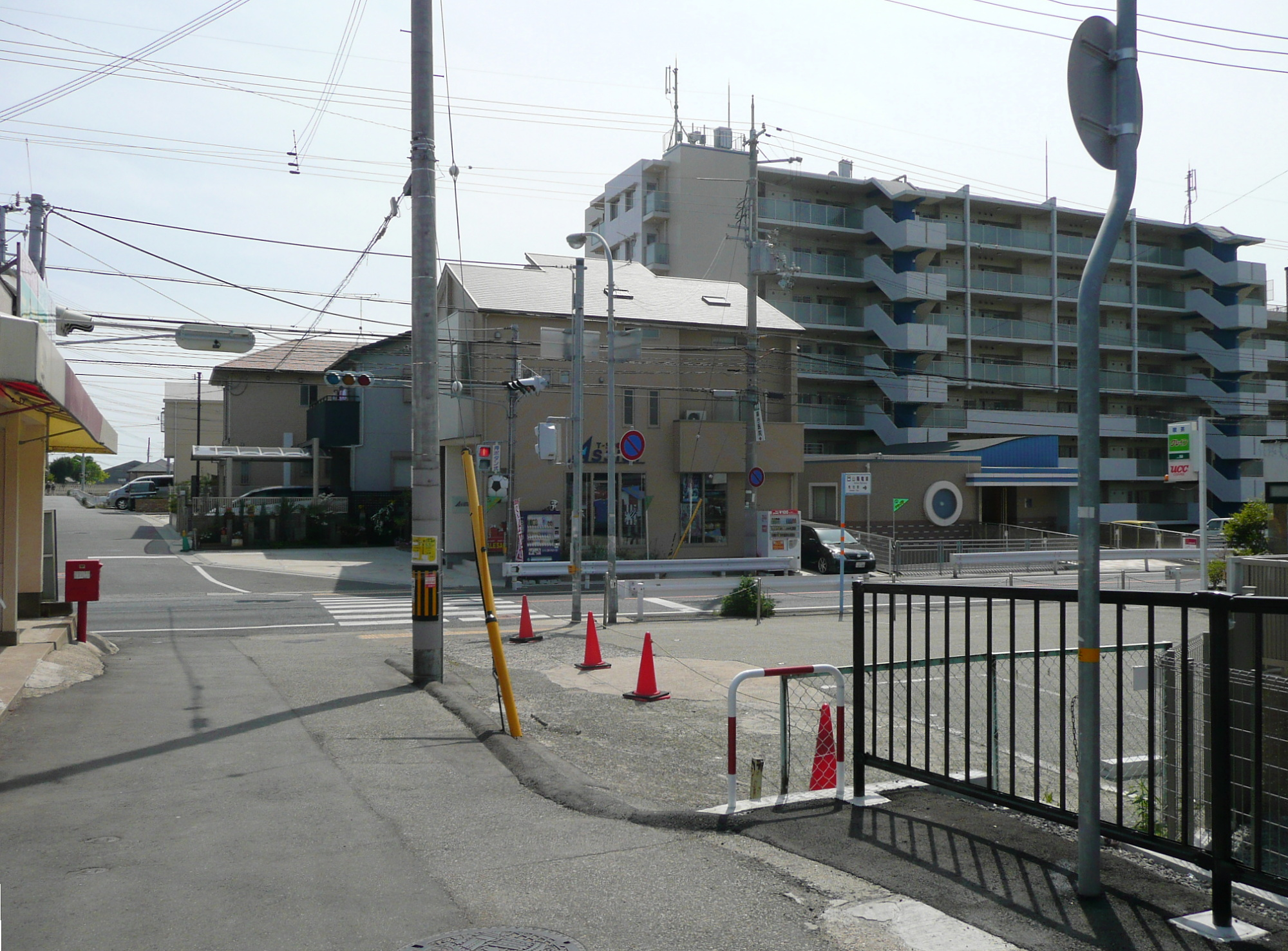 The vicinity of Sanyo-Uozumi Station(Sanyo Electric Railway). / 山陽電気鉄道山陽魚住駅駅前（南側）